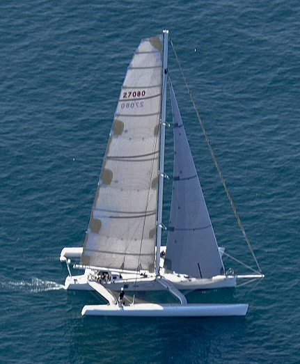 Cropped image of Loe Real, one of the two 60-foot (18 m) Waterworld trimarans in 2013; Newport Beach, California